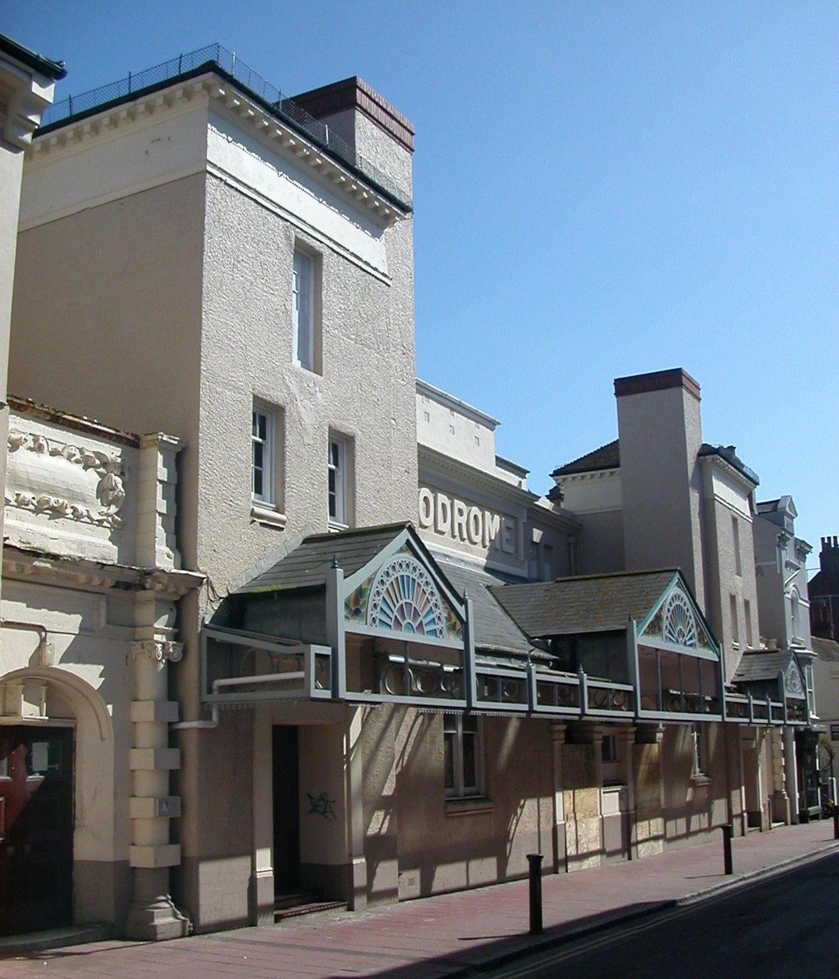 52–58 Middle Street, Brighton, City of Brighton and Hove, England: the former Brighton Hippodrome theatre, later a circus and a bingo hall. Listed at Grade II* by English Heritage (IoE Code 482157)